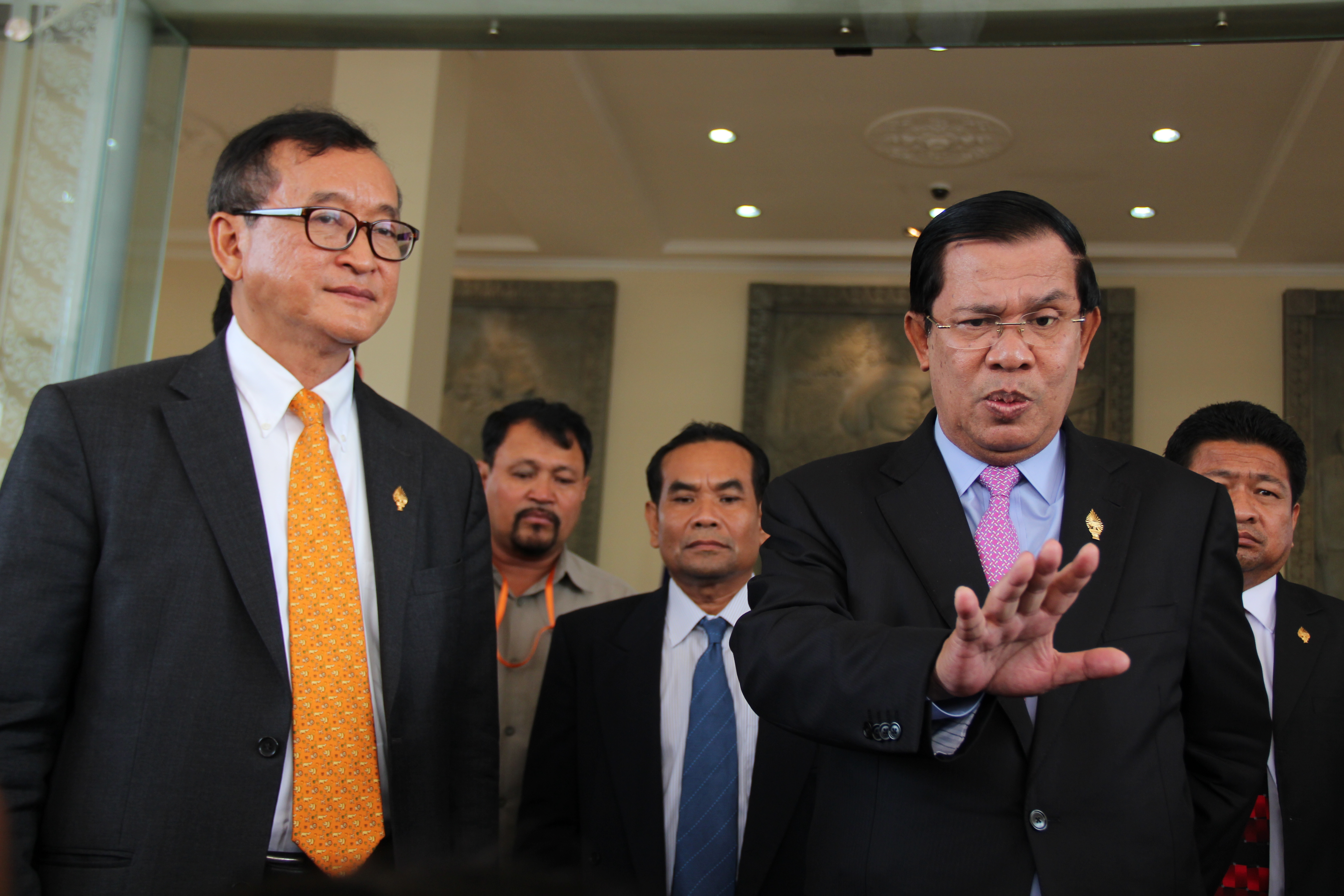 Cambodian Prime Minister Hun Sen (R) talks to the press with Sam Rainsy (L) president of the Cambodia National Rescue Party (CNRP), after the National Assembly vote to select the members of National Election Committee in Phnom Penh, Cambodia on April 9th, 2015.